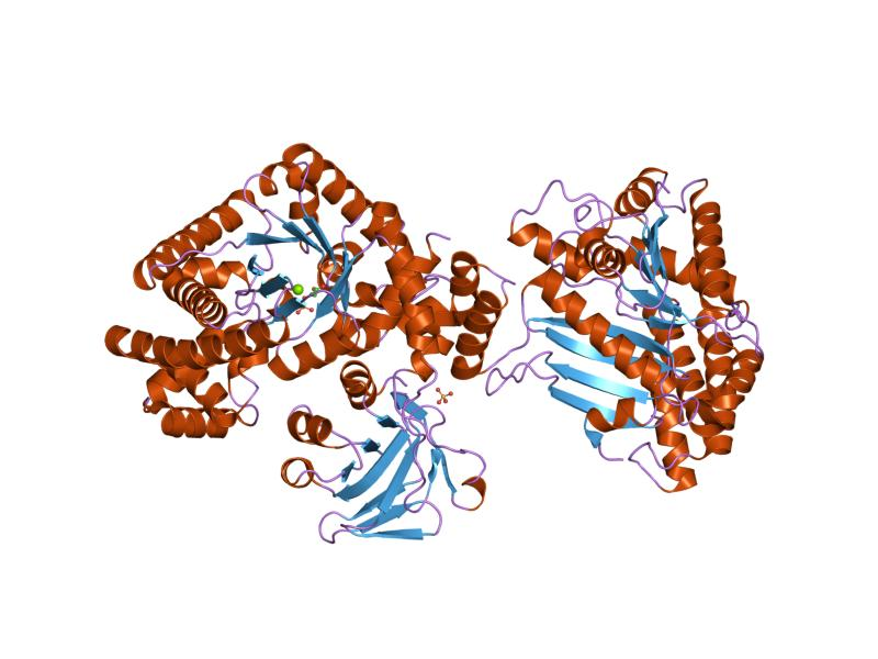 Cartoon representation of the molecular structure of protein registered with 1vbh code.